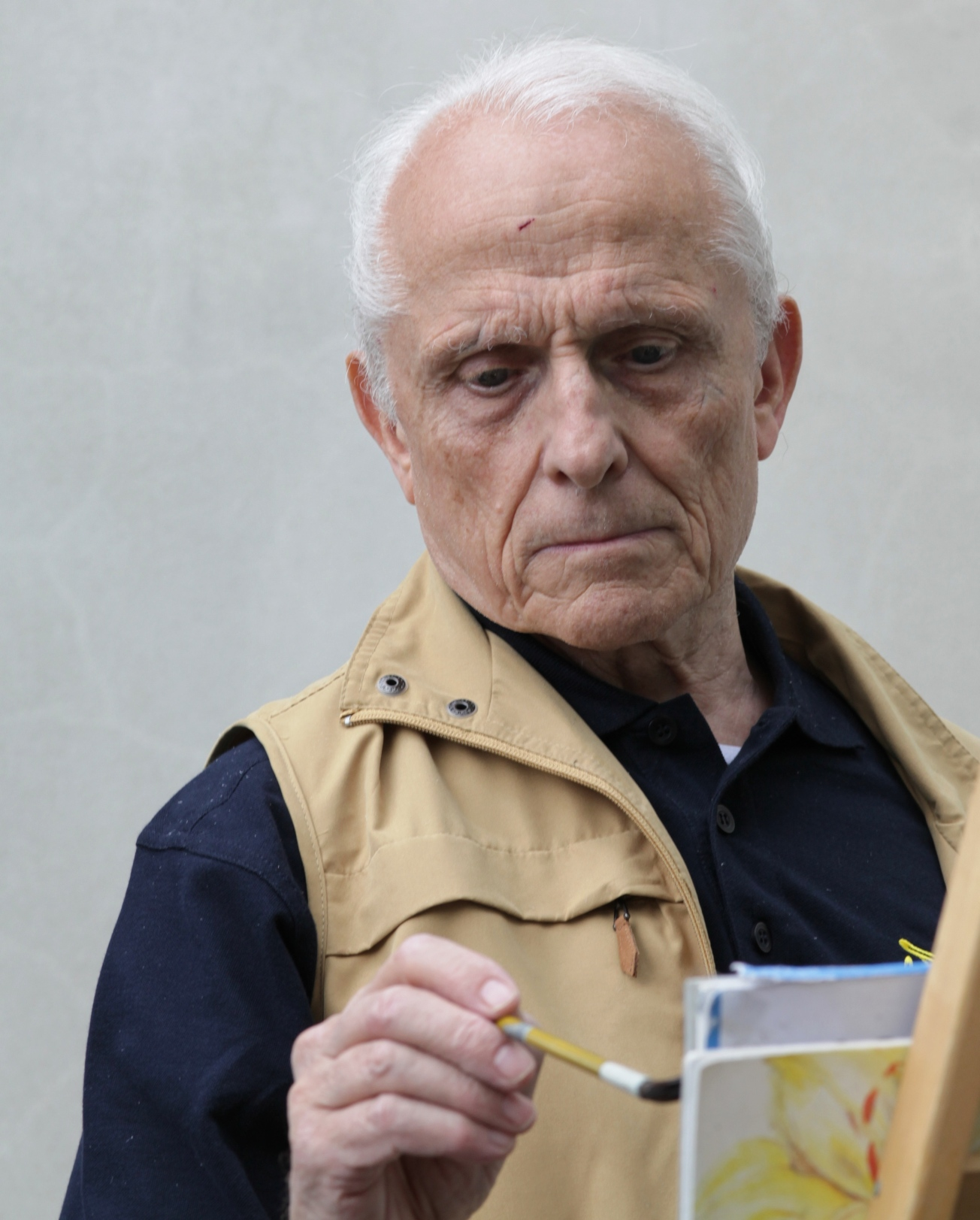 Giorgio del Lungo, Rome; italian writer and illustrator